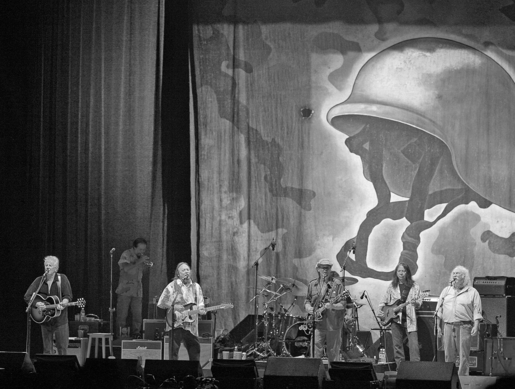 Left to right: Graham Nash, Stephen Stills, Neil Young, and David Crosby Crosby, Stills, Nash & Young performing on August 9, 2006 while on tour- several of the songs written and performed against the war in Iraq.